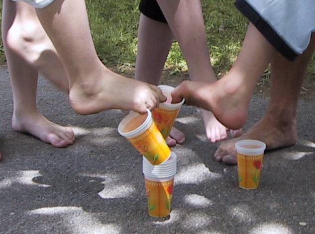 Foot gymnastics example. taken by Lorenz Kerscher